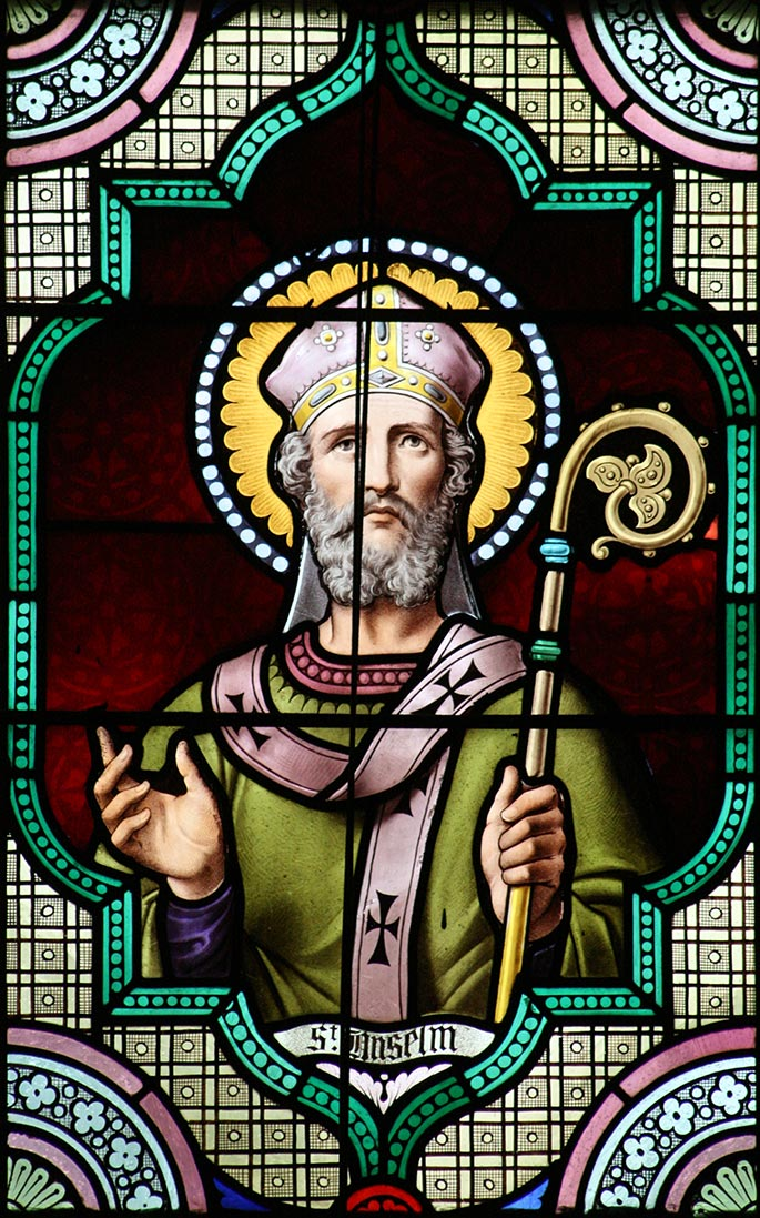 St. Anselm of Canterbury in an English glass window of 19th cent.